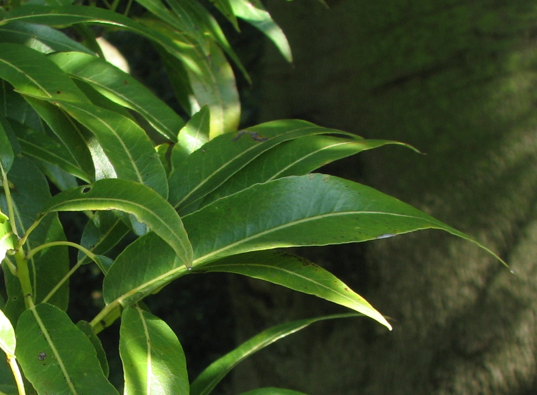 Brachychiton rupestris adult leaves (cultivated, labelled) Royal Botanic Gardens Melbourne, Australia